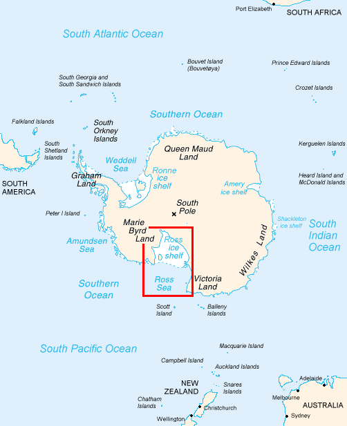 The location of the Ross Sea, Southern Ocean, Antarctica